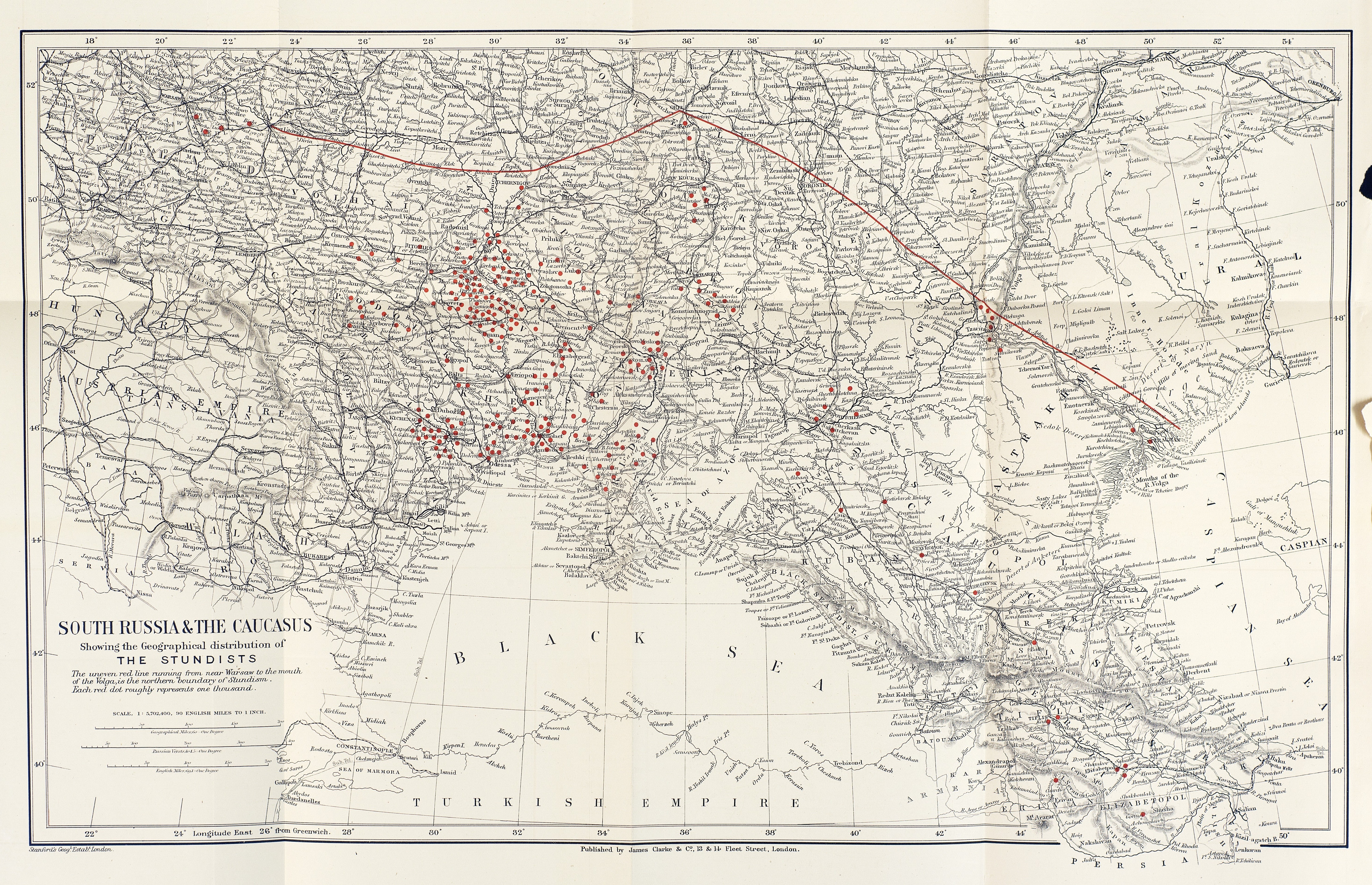 A map of South Russia & the Caucasus, showing the geographical distribution of the Stundists. The uneven red line running from near Warsaw to the mouth of the Volga, is the northern boundary of Stundism. Each red dot roughly represents one thousand.